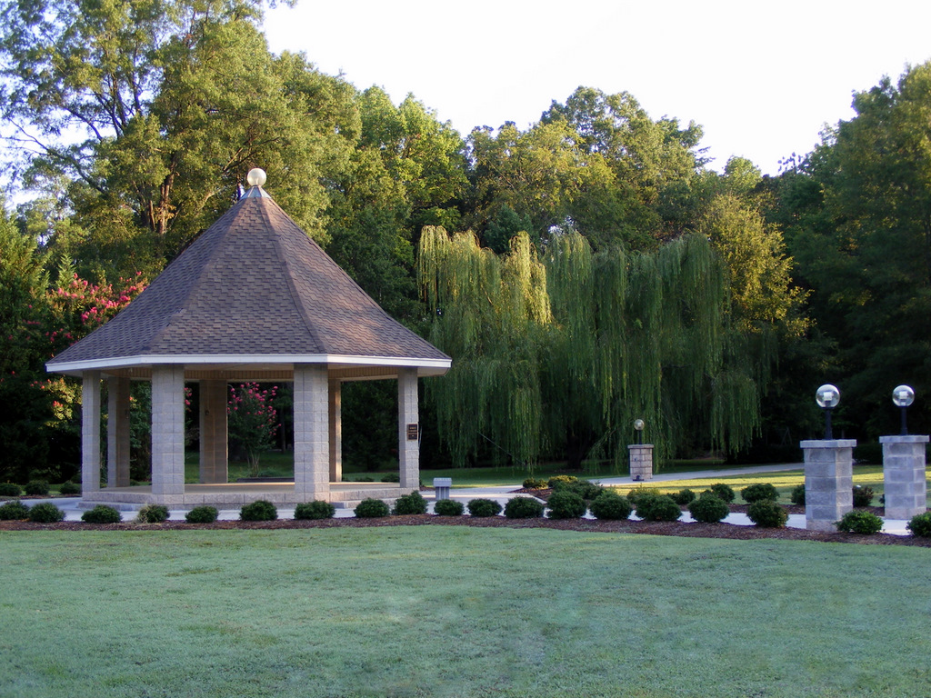 The Gazebo Park is where many of the community holiday celebrations and festivals take place which is located directly across the street from Butner Town Hall.